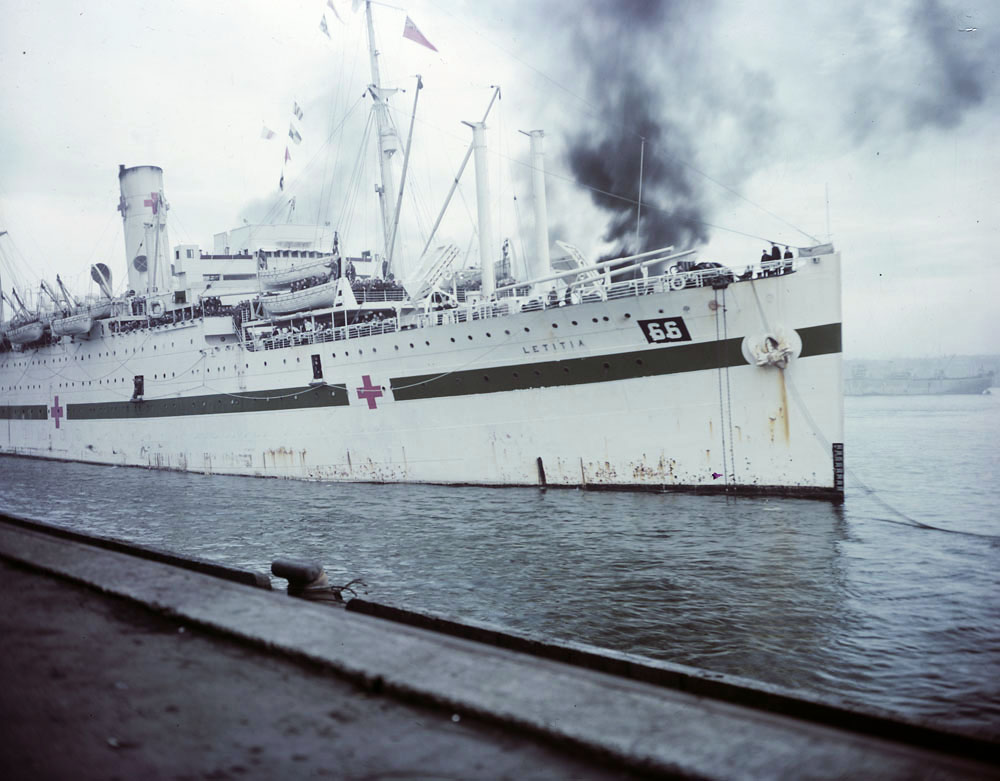 HMHS Letitia (II) in World War II